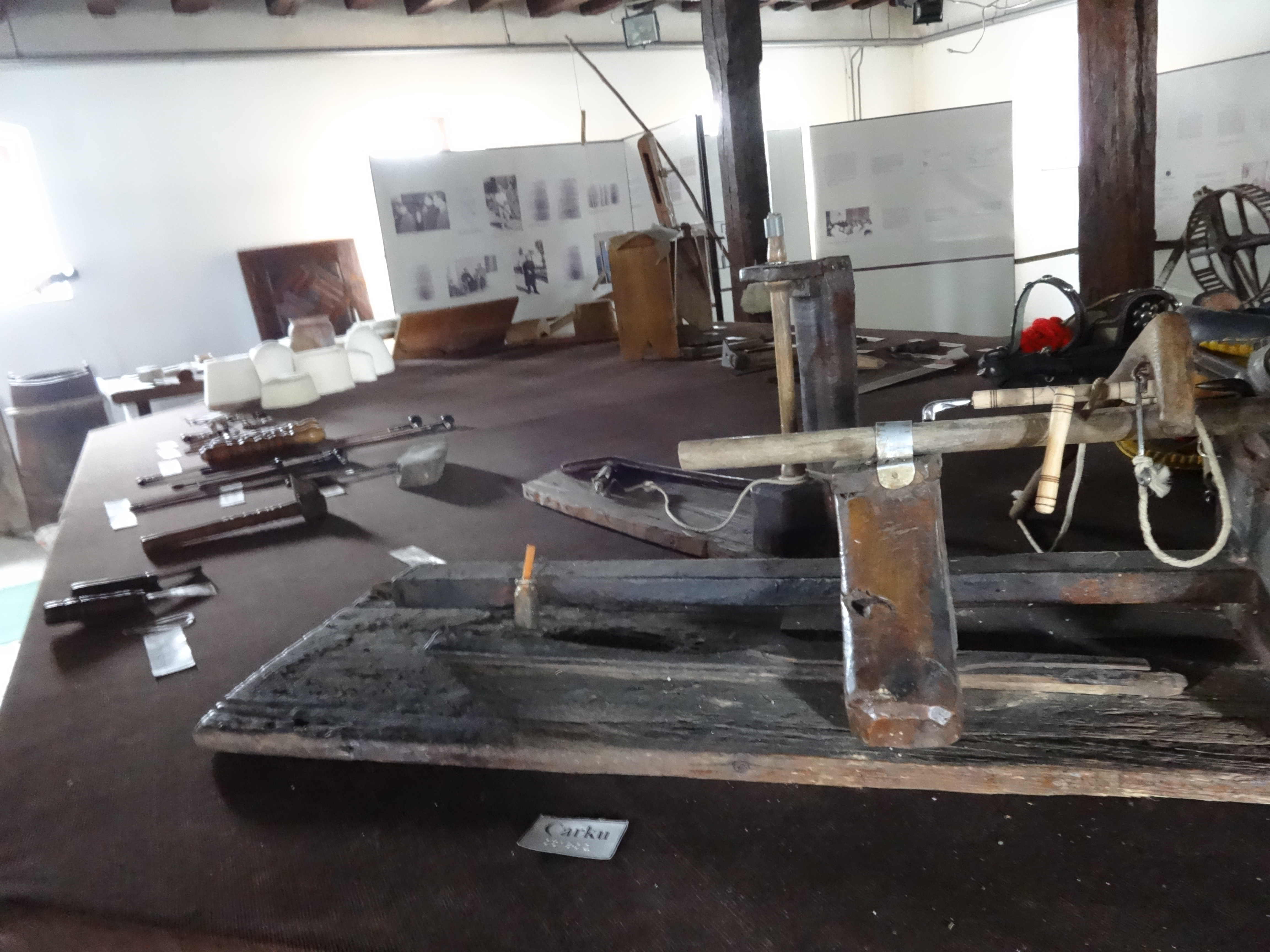 Making smoking pipes was a tradition in Gjakova, it was crafting, passed from parent to child. As time went by, this crafting art was disappearing little by little, and today no one uses it anymore.